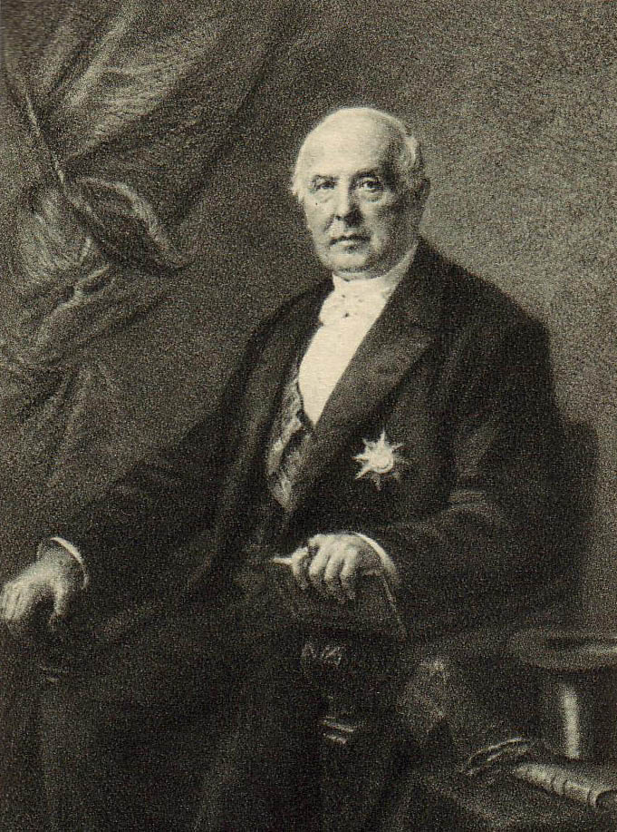 Prof. Dr. jur. Karl Gerber (1823-1891), Prime Minister of Kingdom of Saxonia